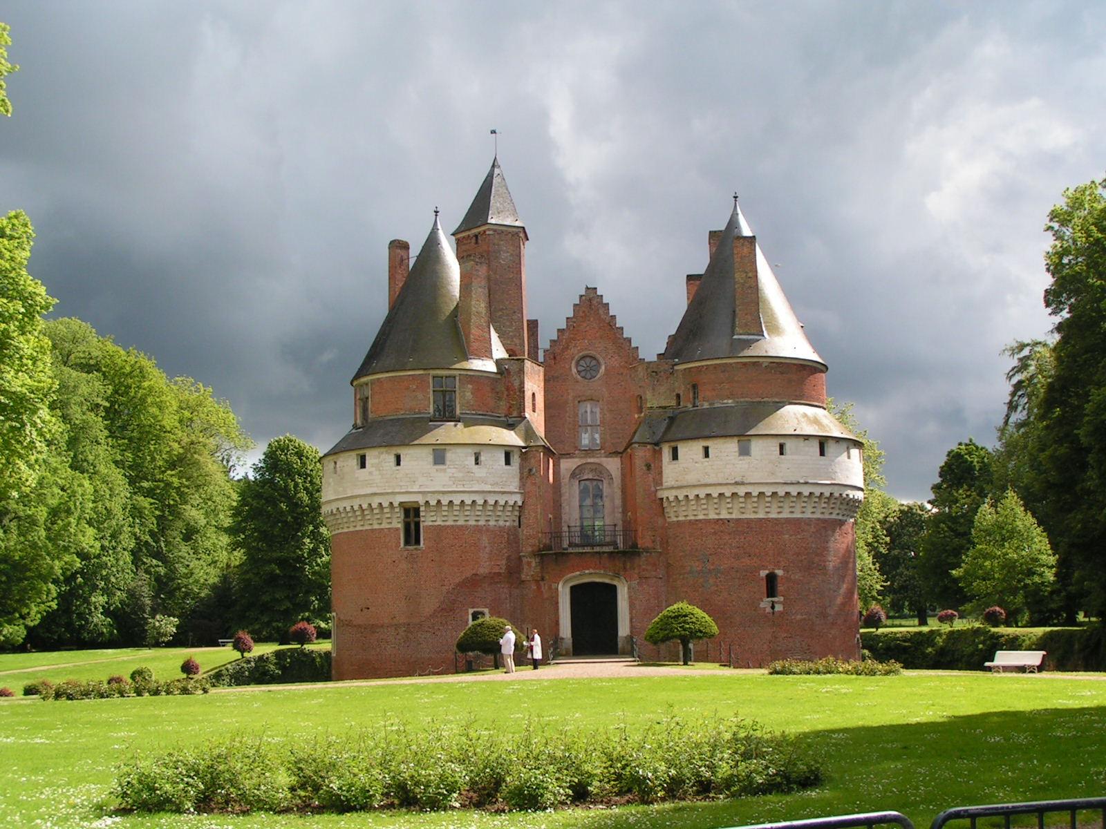 This is Chateau de Rambures in Picardy, France.stormy